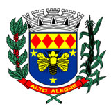 Brasão de Alto Alegre - SP